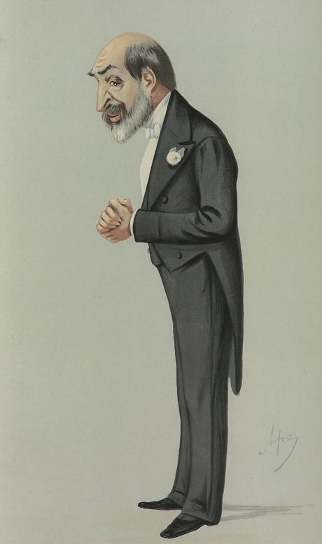 Men of the Day No.86: Caricature of Sir A Helps KCB. Caption reads: "Council"